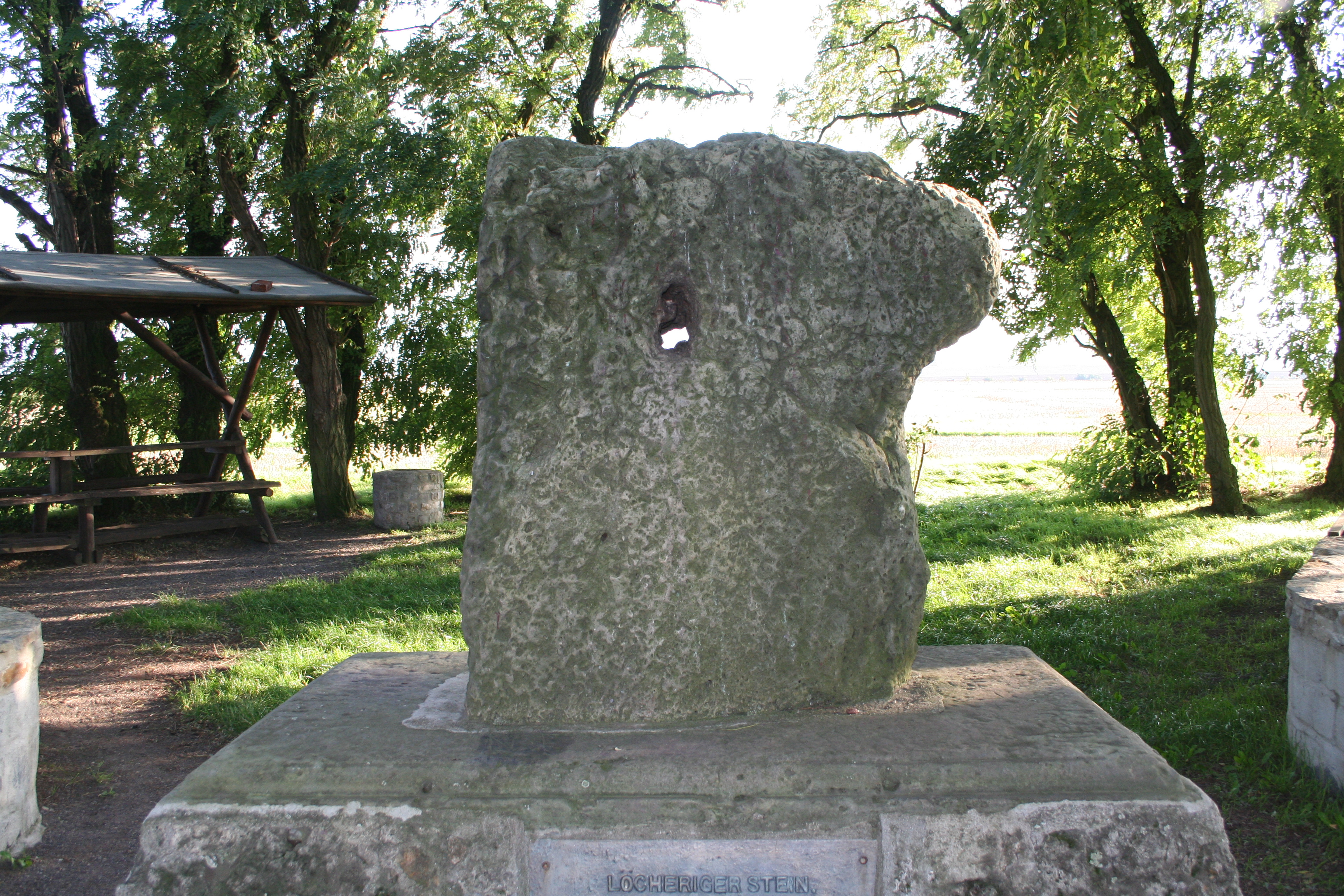 Menhir "Löchriger Stein" ("Holey Stone) or "Hoyerstein" ("Hoyer Stone") near Gerbstedt